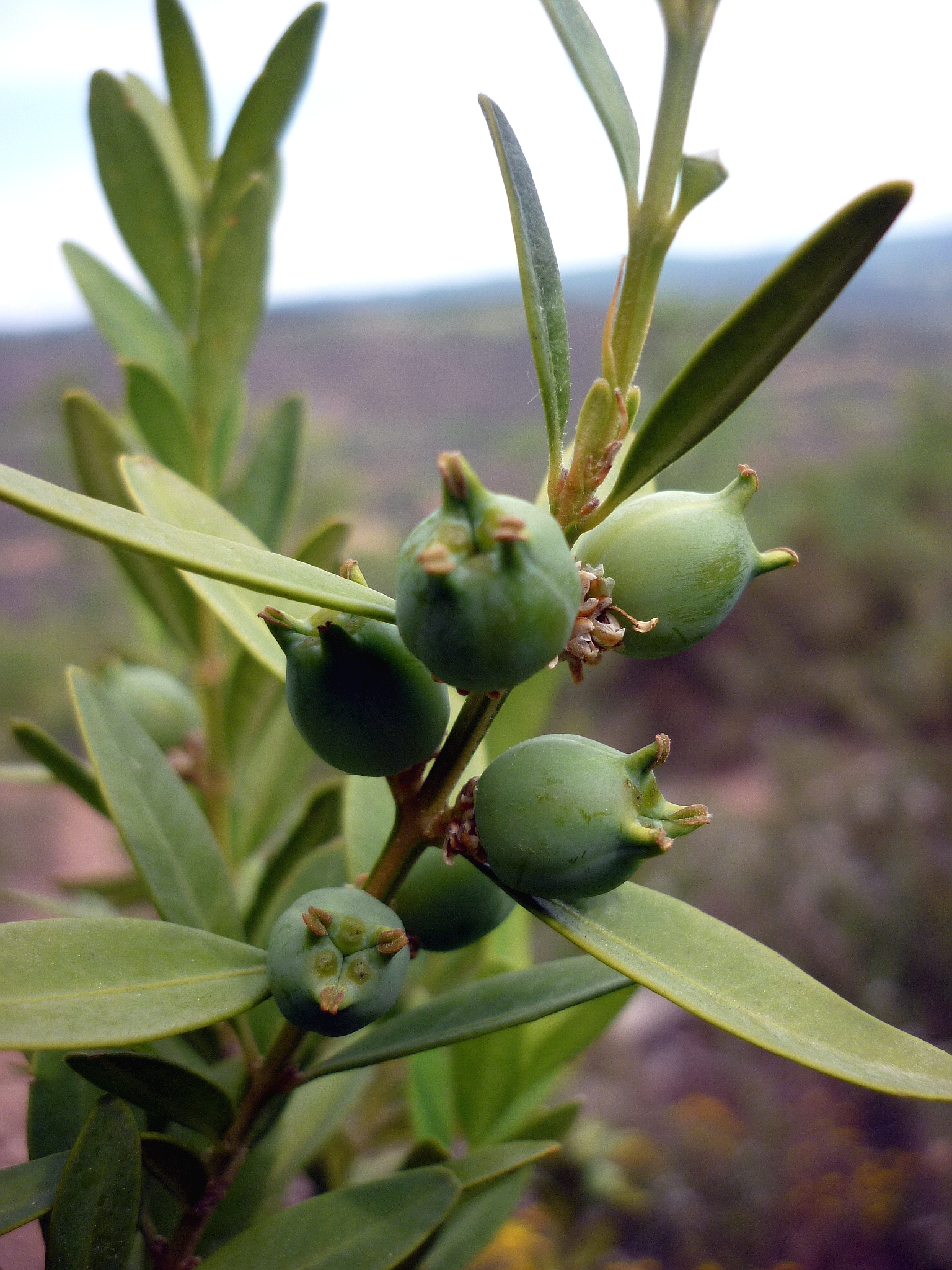 Buxus sempervirens. In Torà (Segarra-Catalunya). To 480 m. altitude